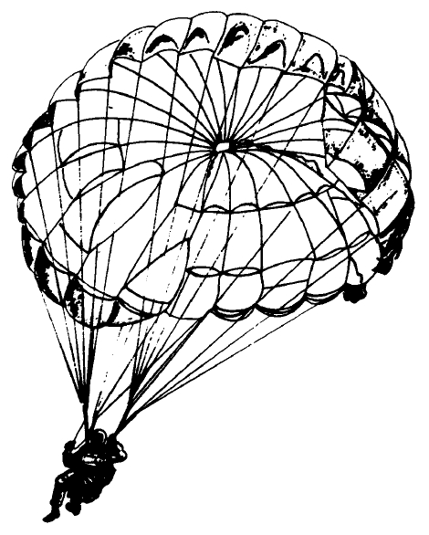 Springer unter dem Hauptschirm (Para-Commander) des MC-3-Freifallsystems. Bild aus Field Manual 31-19 von 1977